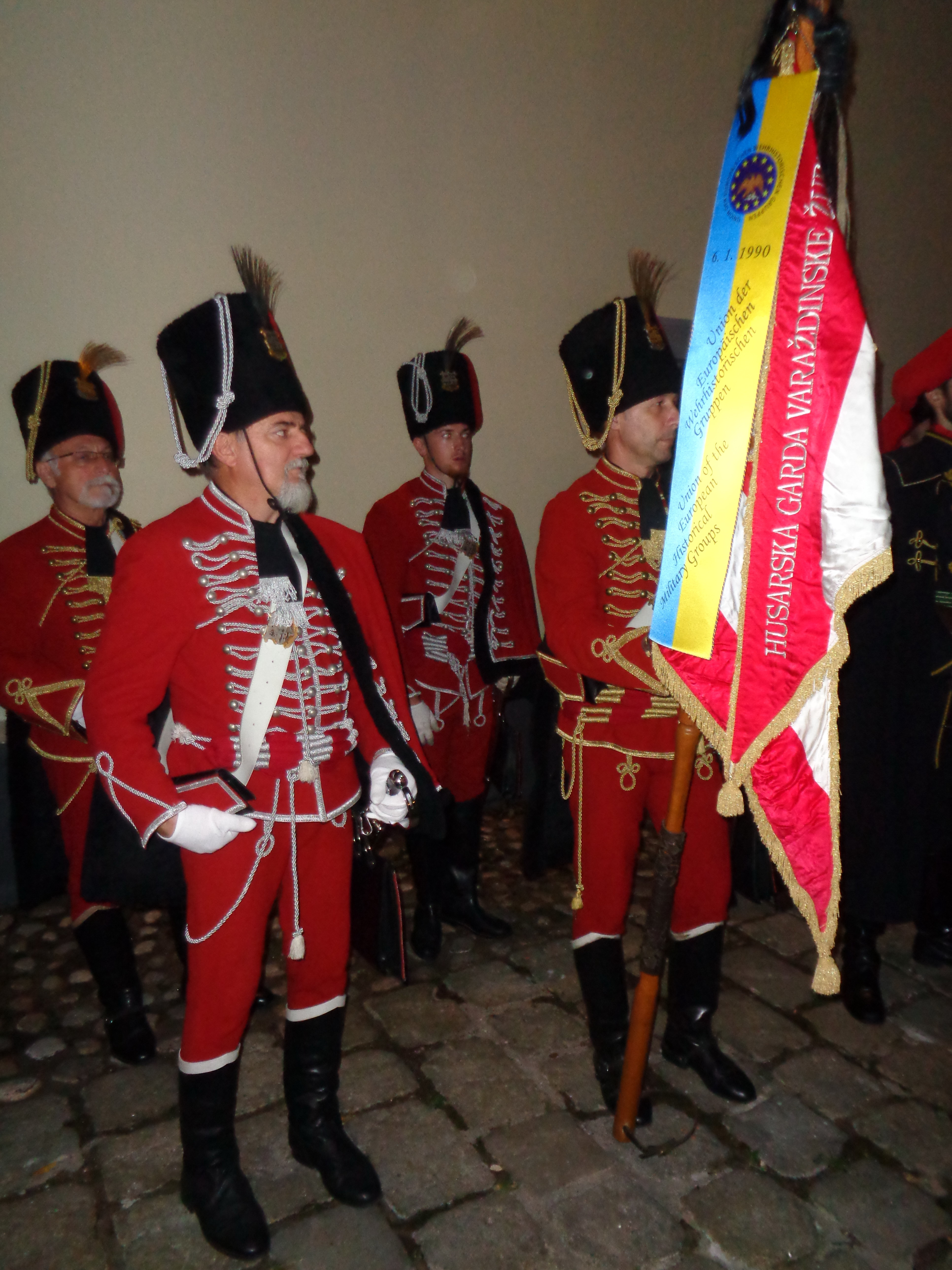 "Varaždin County Hussar Guard", a historical military unit from the Varaždin County, Croatia, during the 450th Anniversary of the Battle of Szigetvár (7th September 2016) in Čakovec